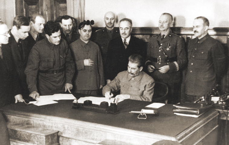 Josif Stalin signing Soviet-Polish common declaration in presence of Polish Prime Minister Gen. Władysław Sikorski, Gen. Władysław Anders, Stanisław Kot and others